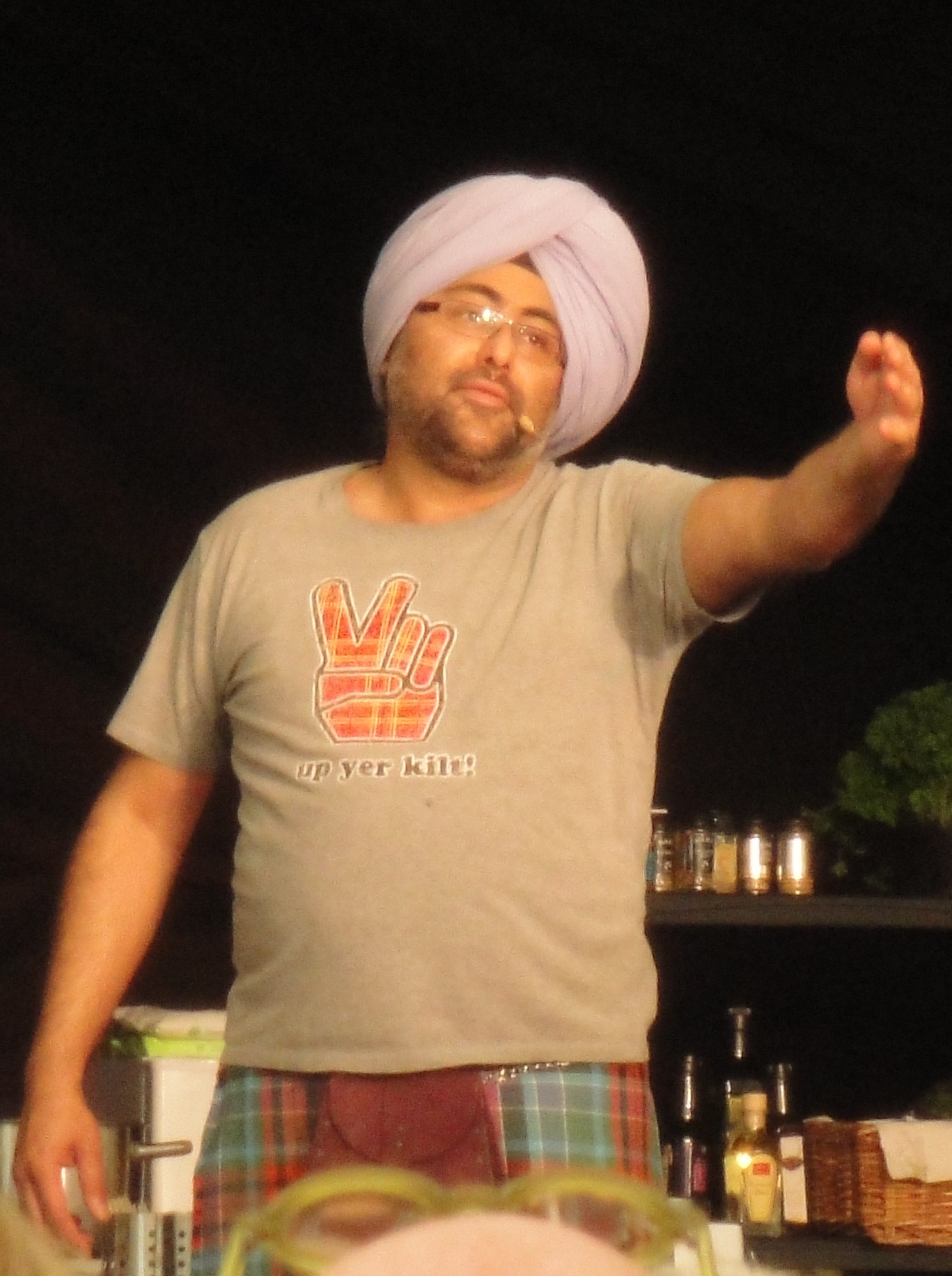 Hardeep Singh Kohli, seen performing at the Isle of Arts Festival 2012, held in Ventnor, Isle of Wight.